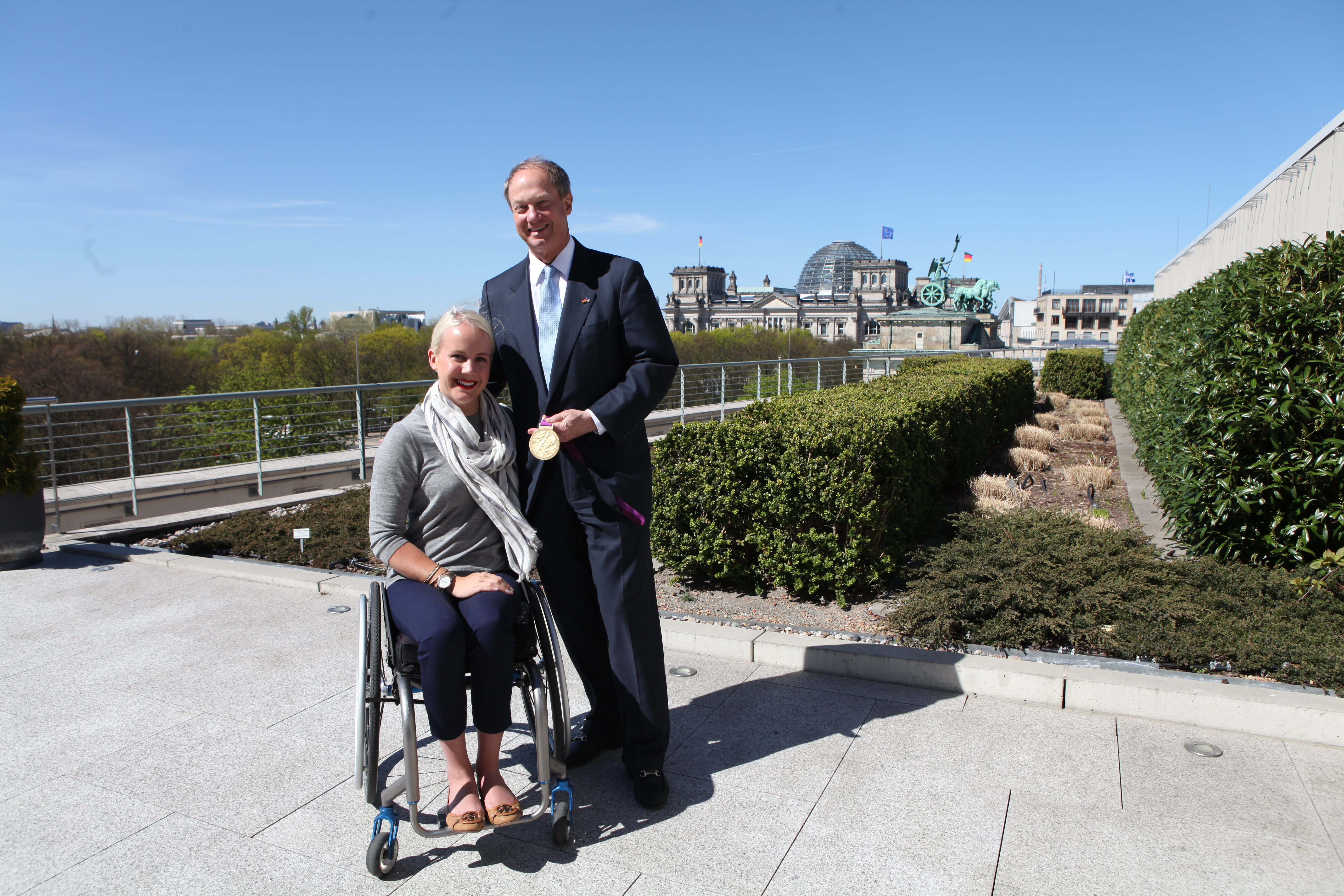 Mallory Weggemann and John B. Emerson on the roof of the US Embassy in Berlin